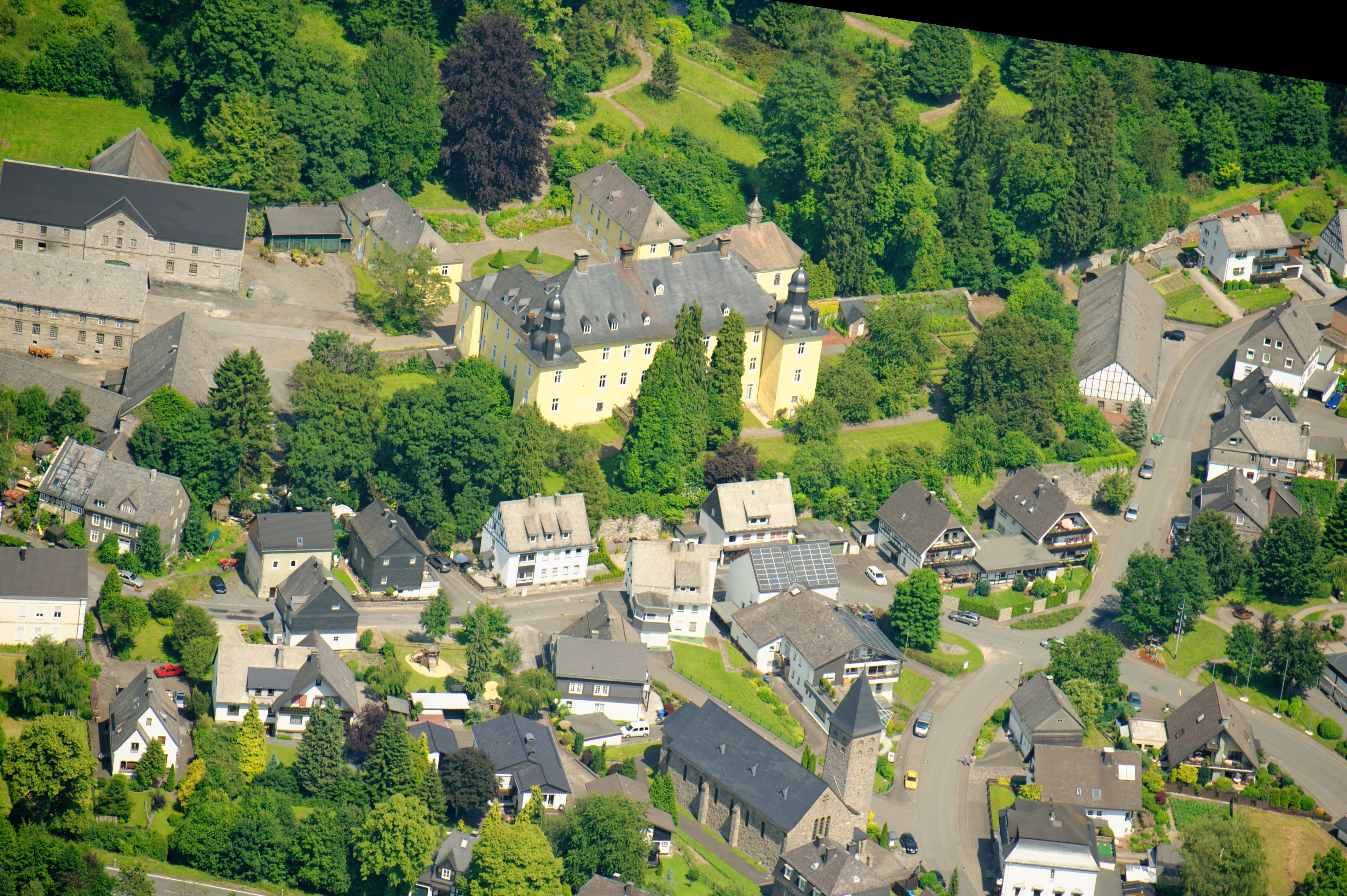 Fotoflug Sauerland-Ost, Olsberg-Antfeld, Schloss Antfeld The making of this document was supported by the Community-Budget of Wikimedia Germany.